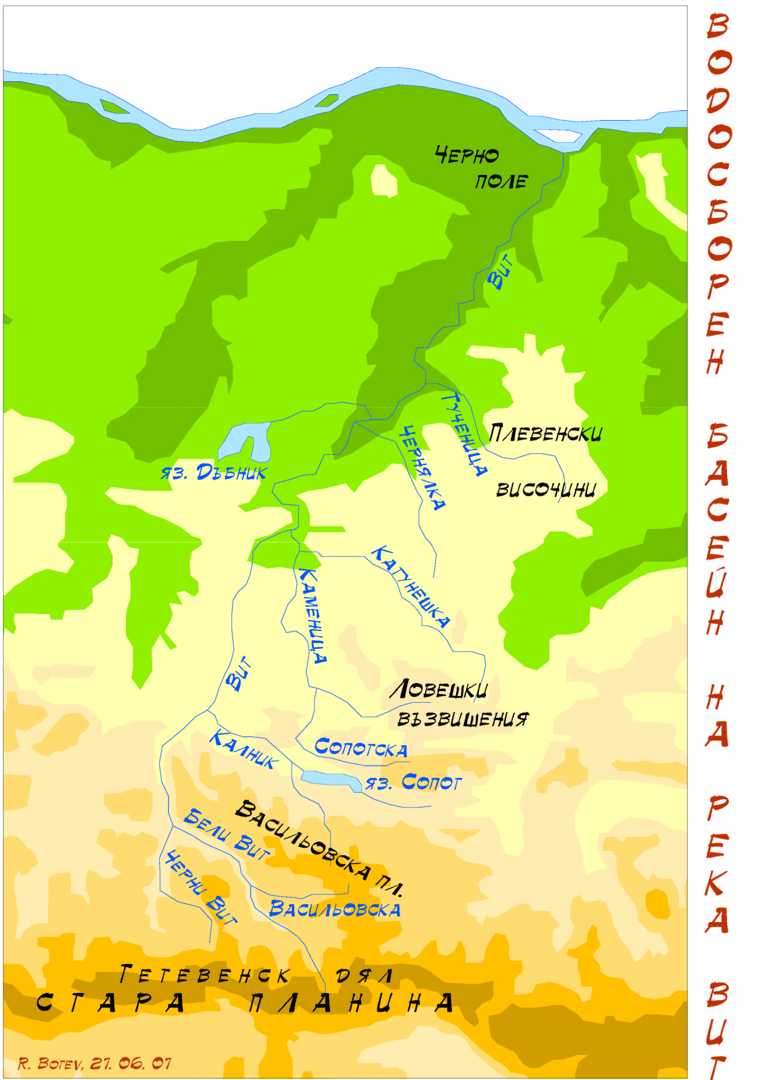 Map of Vit Bassin in Bulgaria